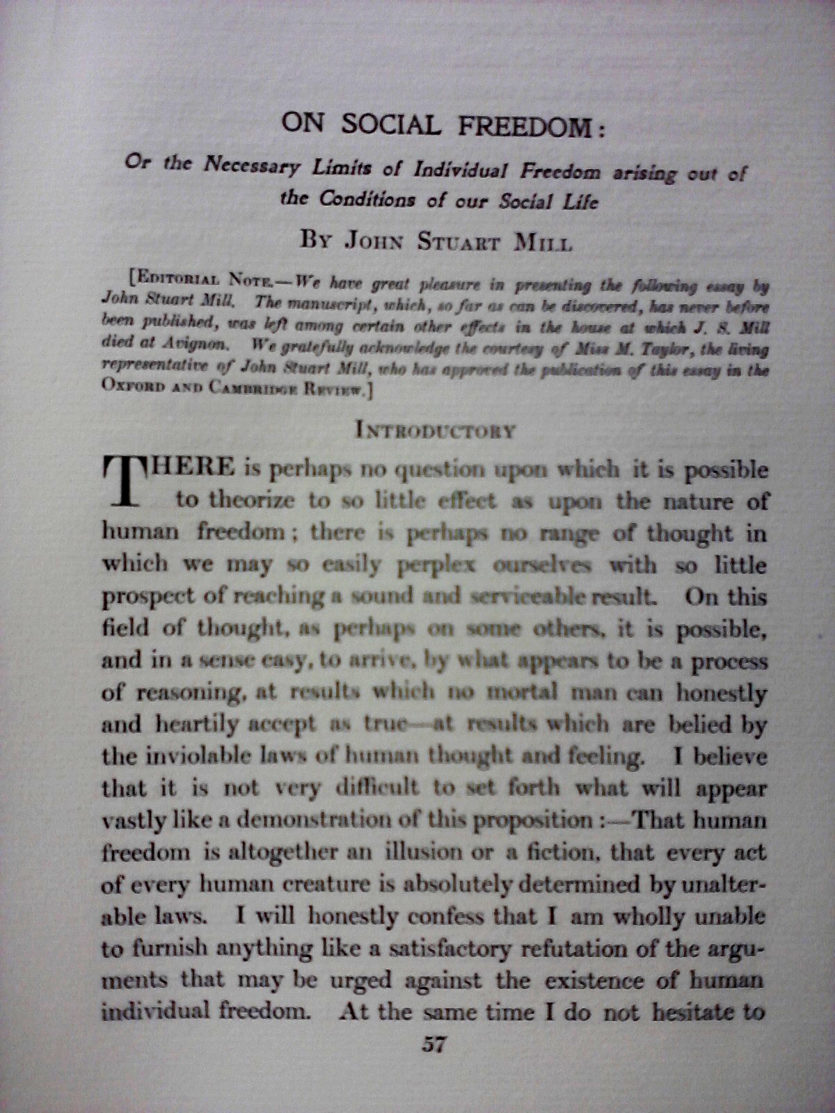 John Stuart Mill's On Social Freedom: or the Necessary Limits of Individual Freedom Arising Out of the Conditions of Our Social Life in the Oxford and Cambridge Review, June of 1907. This is the original publication of the essay.